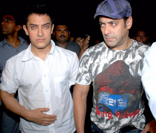 Aamir Khan and Salman Khan at blood donation camp organized by Alka Lamba's 'Go India Foundation'